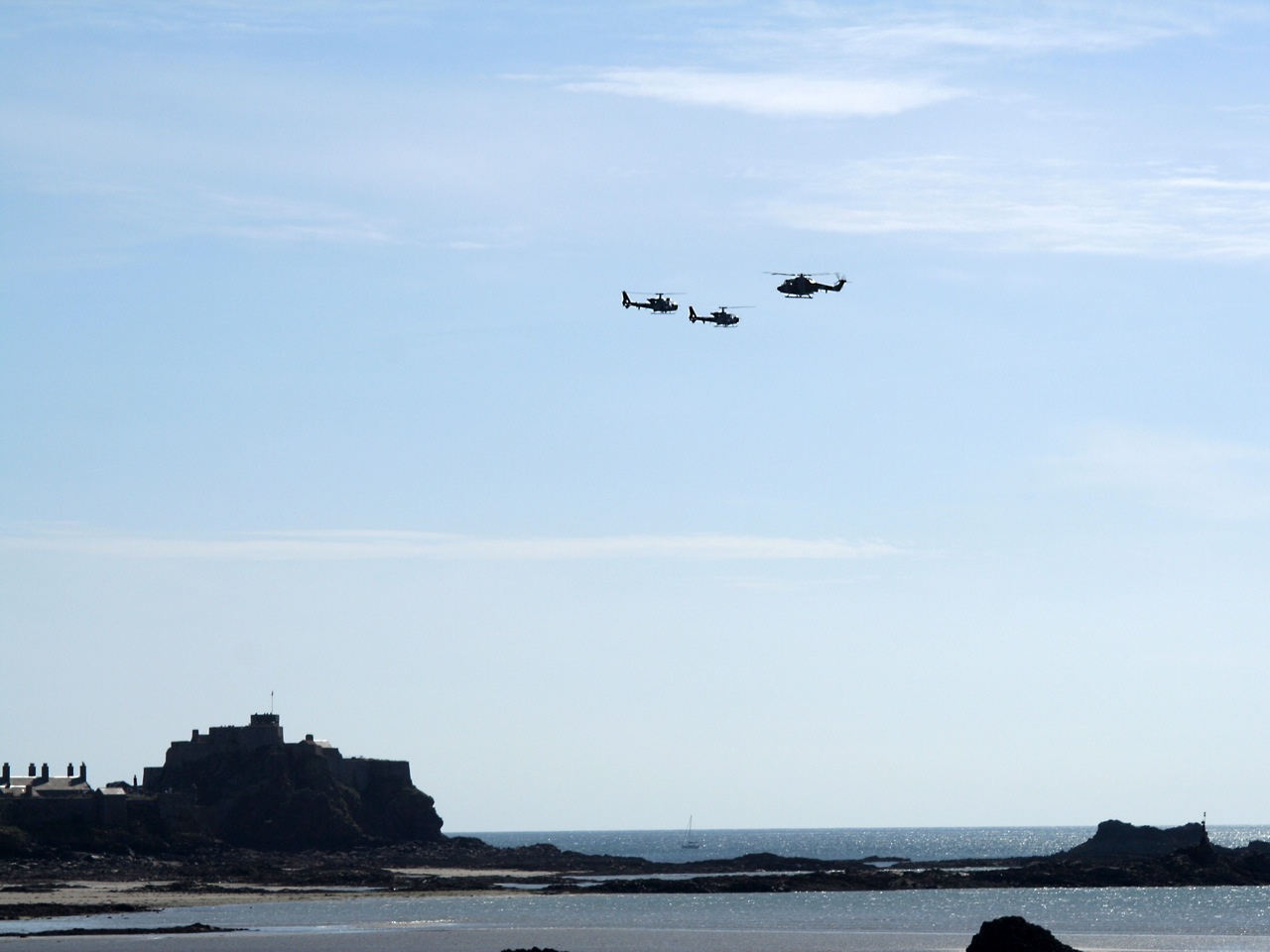 Blue Eagles Helicopter Display Team